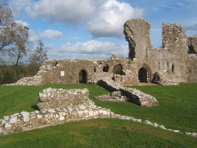 Part of Llawhaden Castle The ruins are extensive and impressive.